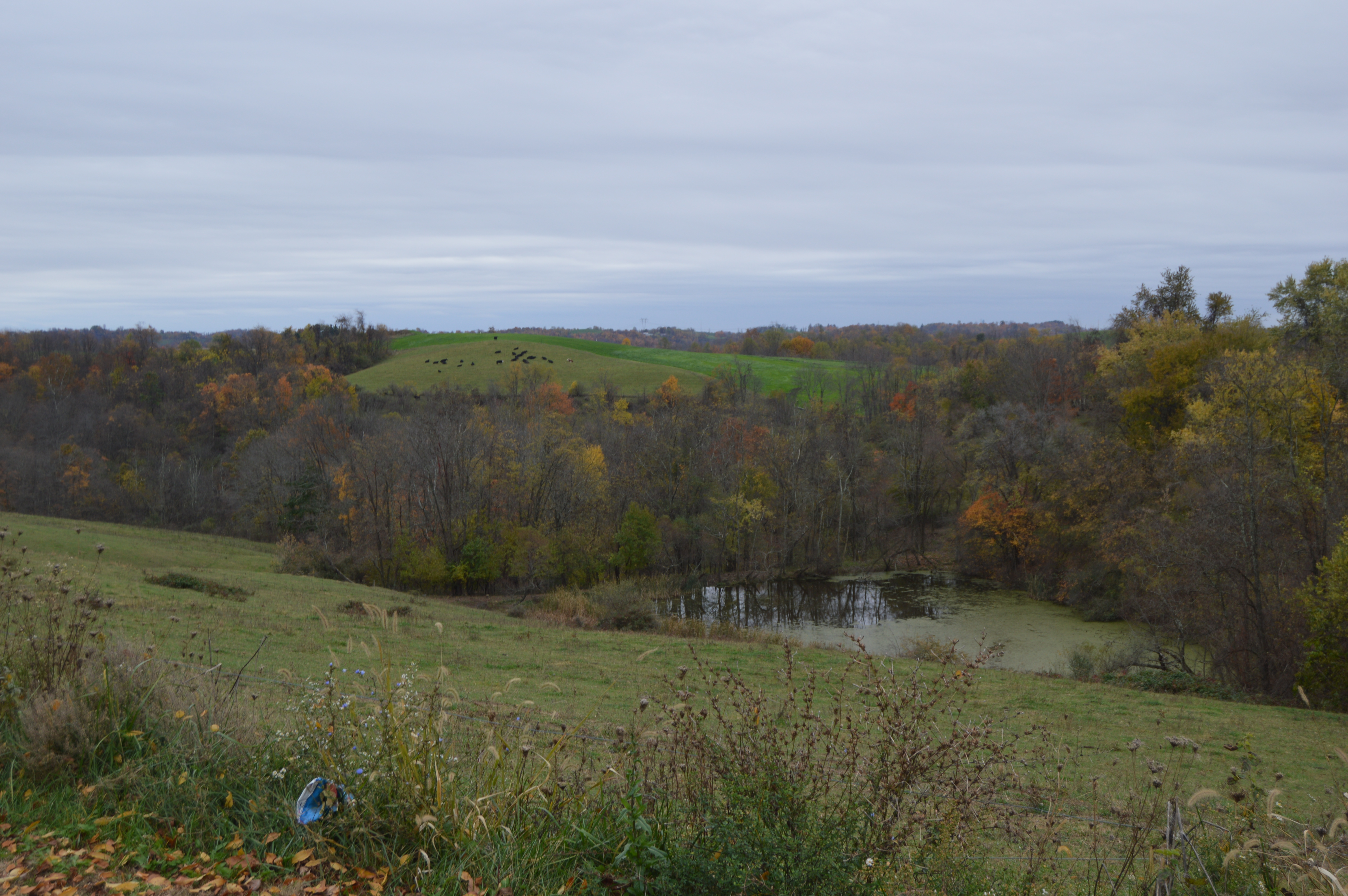 Looking south from Clover Ridge Road over countryside in southeastern Washington Township, Belmont County, Ohio, United States.